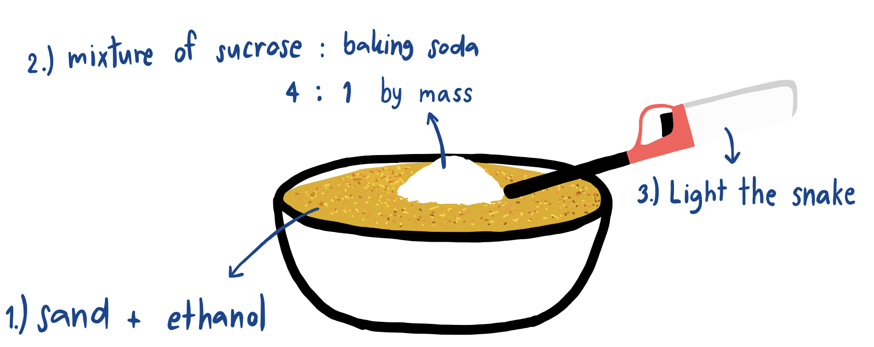 An experiment of sugar snake contains sucrose, sodium bicarbonate, sand and ethanol. Use 4:1 by mass of sucrose:sodium bicarbonate.